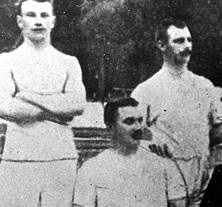 Three of the Swedish athletes at the 1900 Summer Olympics in Paris. Clockwise from the top-left: Karl Gustaf Staaf, August Nilsson, Gustaf Söderström.